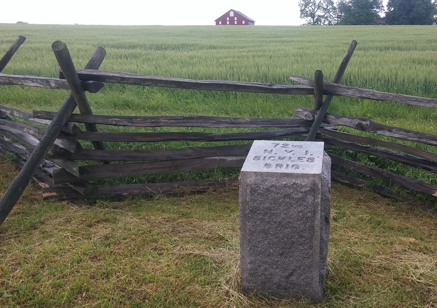 Monument of 72nd New York Infantry Regiment at Gettysburg